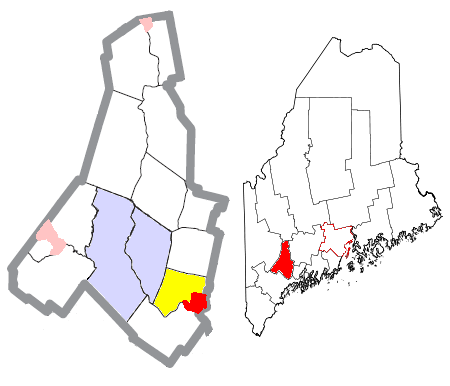 Map of the divisions of Androscoggin County, Maine, United States, with Lisbon highlighted: Lisbon Falls in red, and the rest of the town in yellow. The cities of Auburn and Lewiston are light blue; other towns are white; and pink areas are census-designated places within other towns.